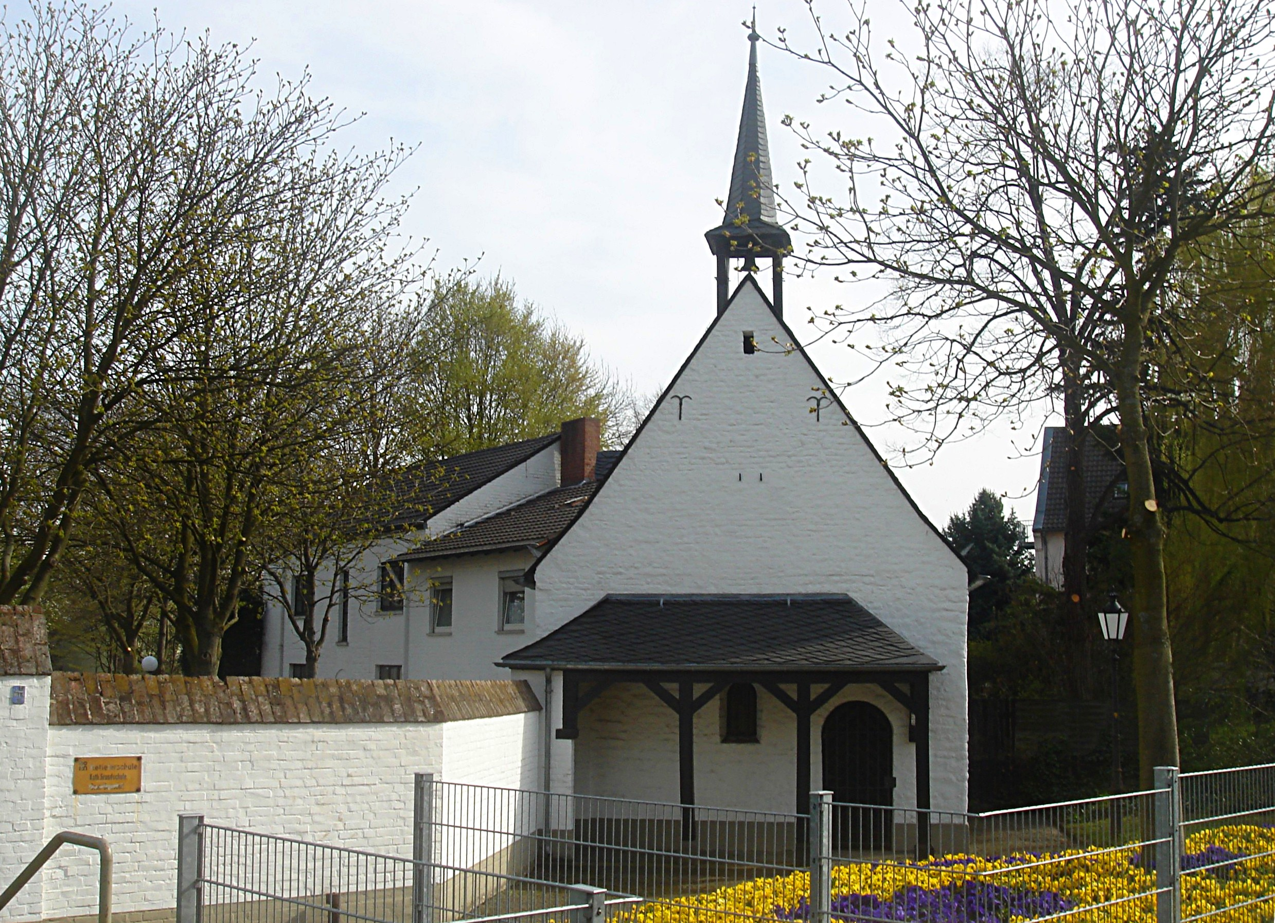 Castle chapel in Bonn-Dransdorf.